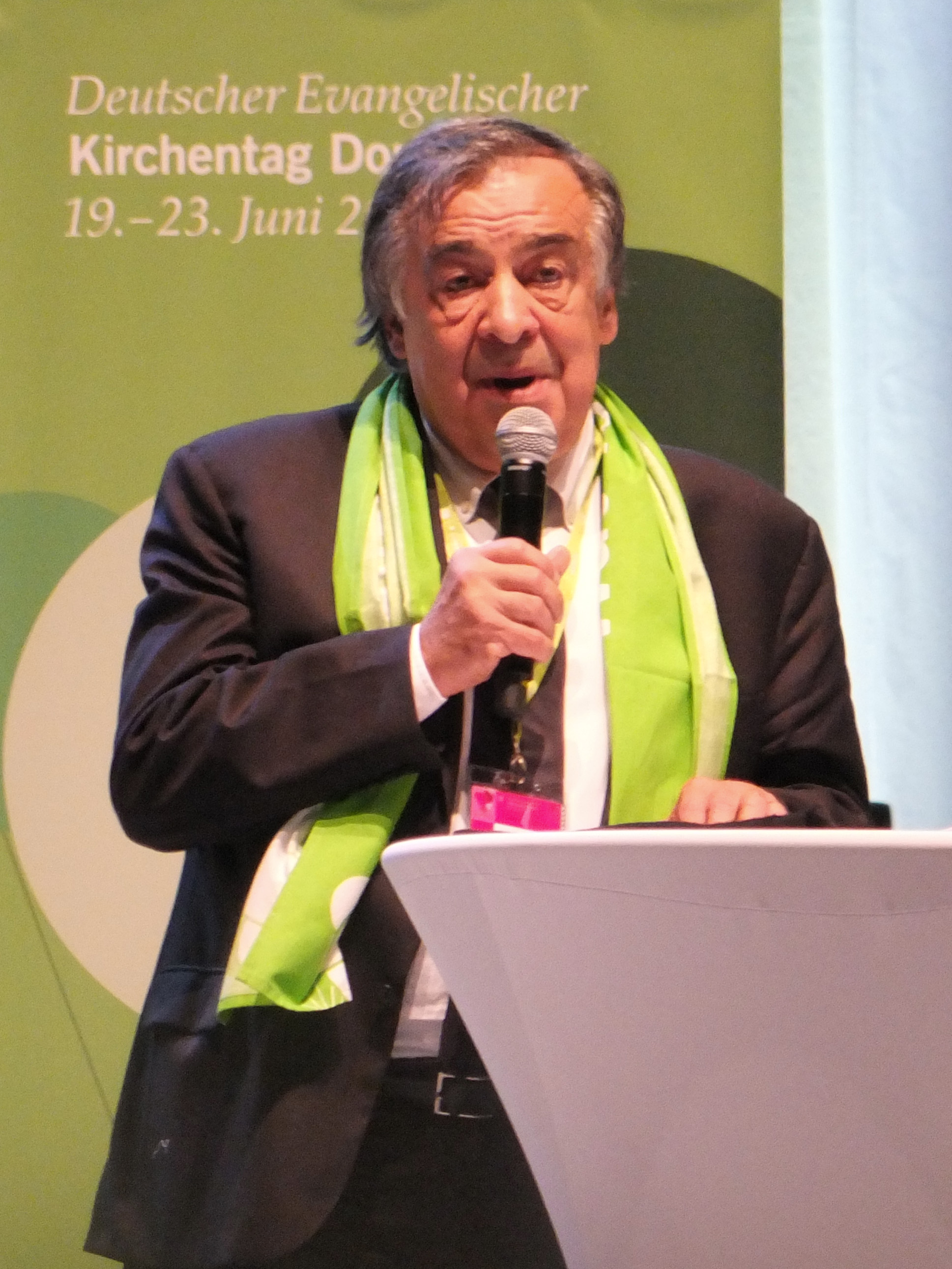 Leoluca Orlando (Italian politician) at Deutscher Evangelischer Kirchentag 2019 in Dortmund, Germany